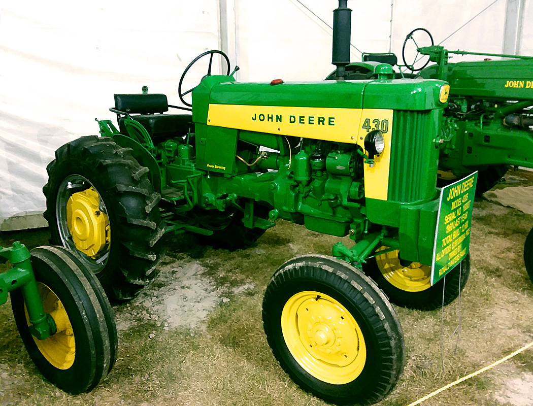 John Deere tractor Model 430S, made in 1960, USA